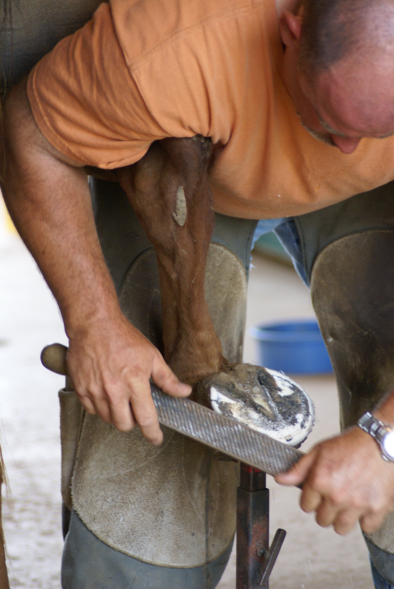 Rasping the trimmed hoof level